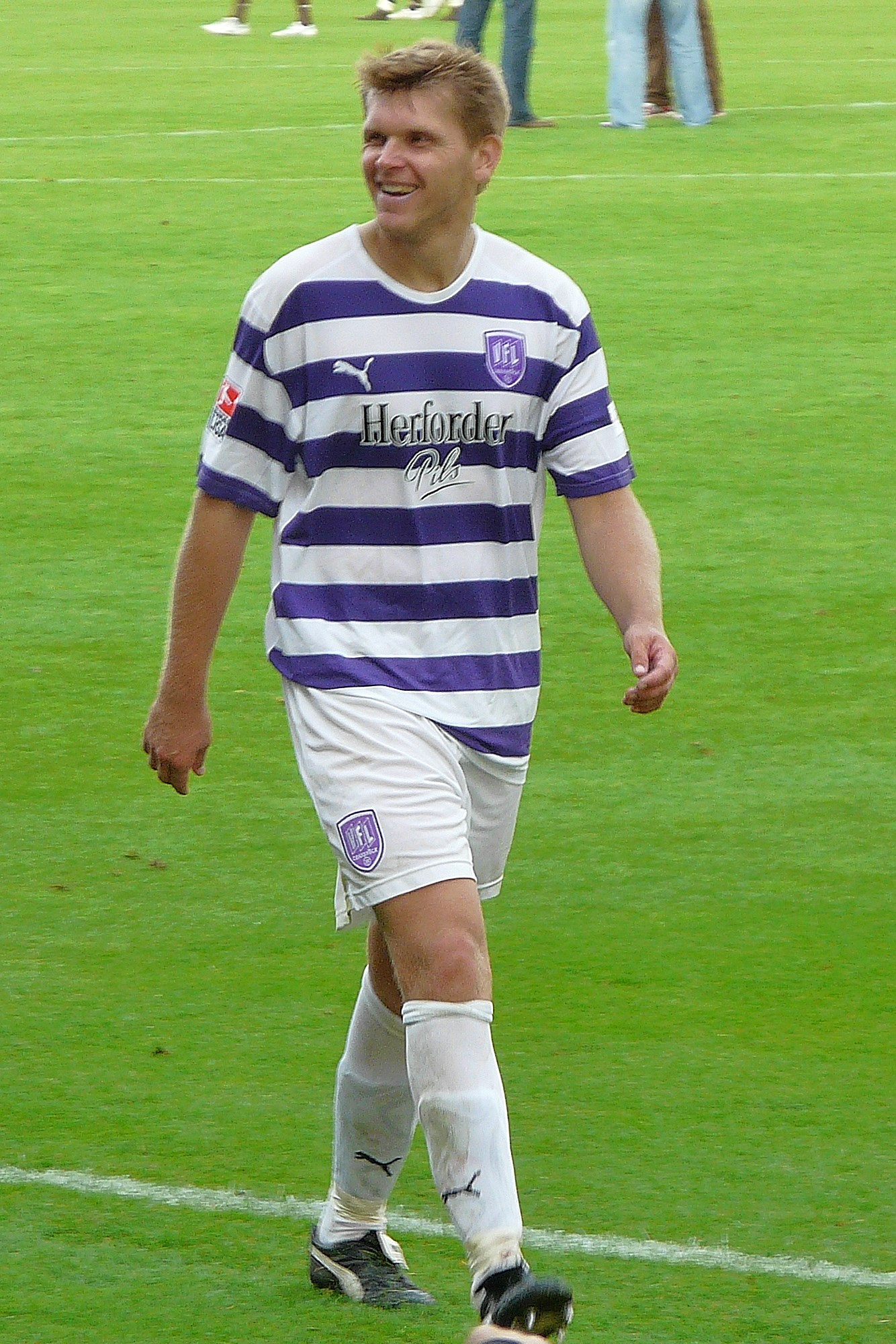 Thomas Cichon as Player from VfL Osnabrück